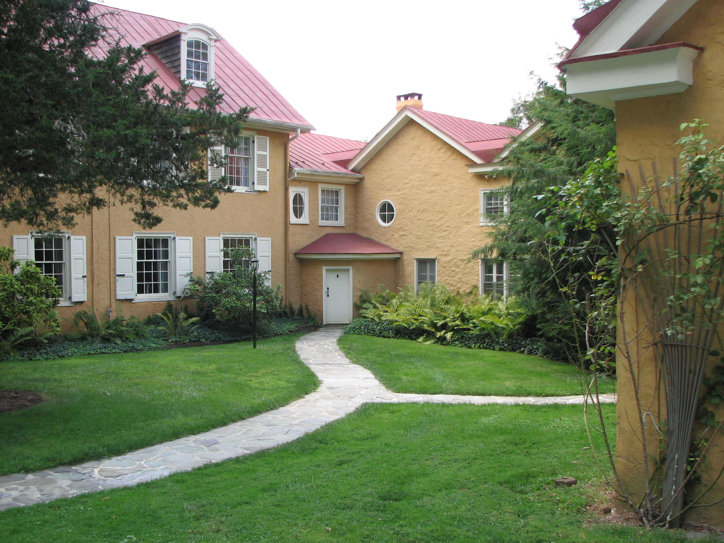 Back of the Hibernia Mansion or Hibernia House in Hibernia County Park, Wagontown, Pennsylvania.